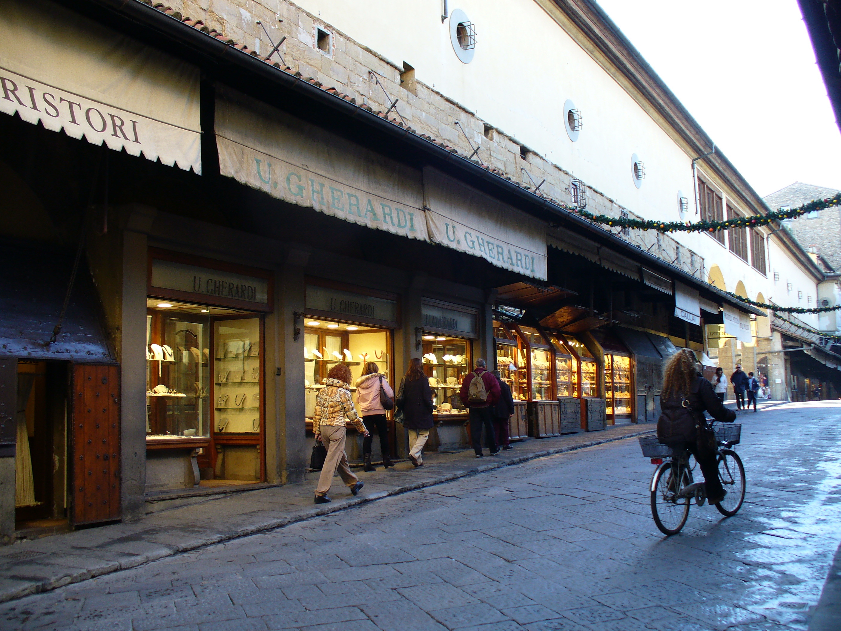 Ponte Vecchio Firenze